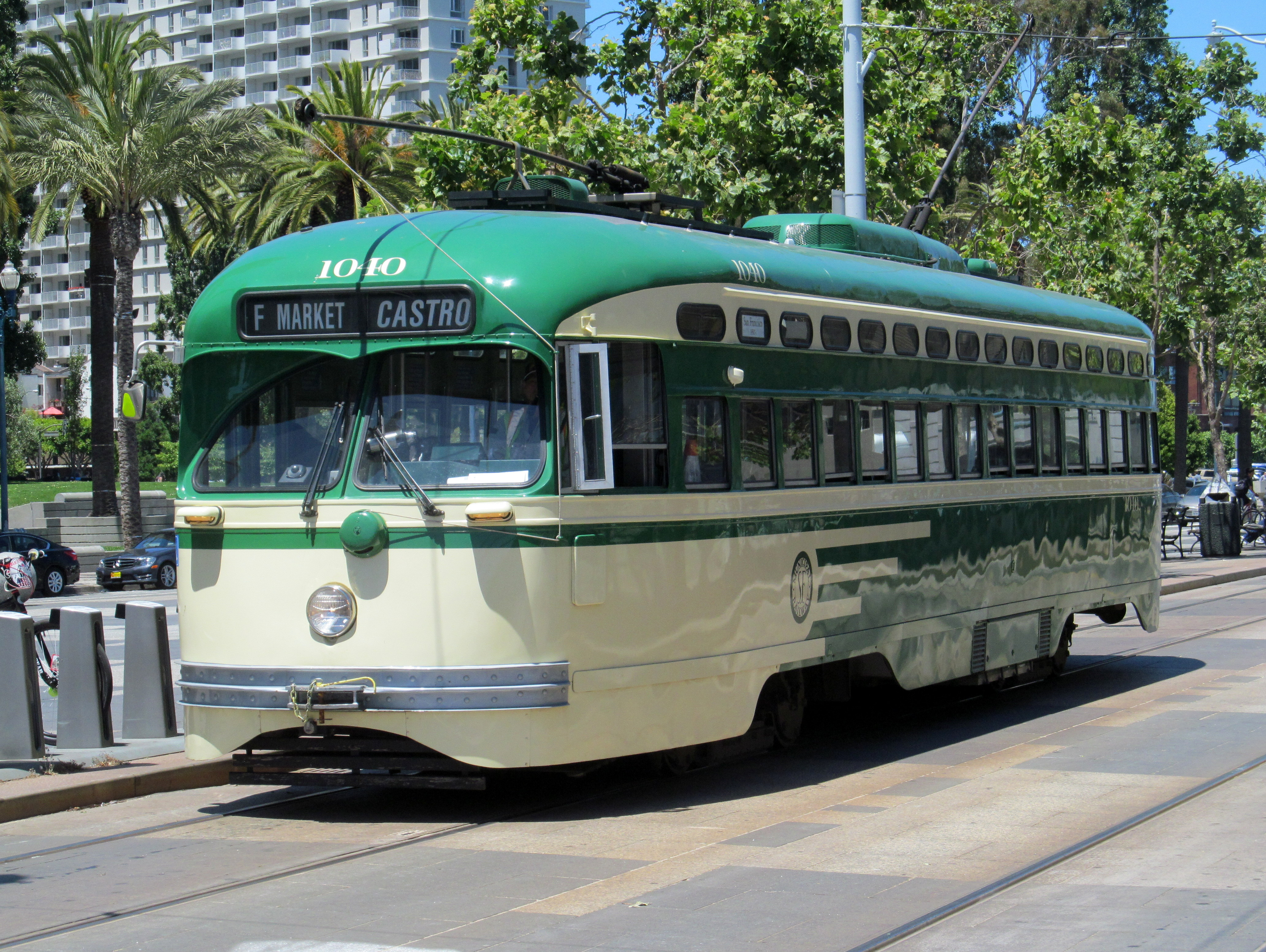 Muni streetcar #1040 at the Ferry Building in June 2017